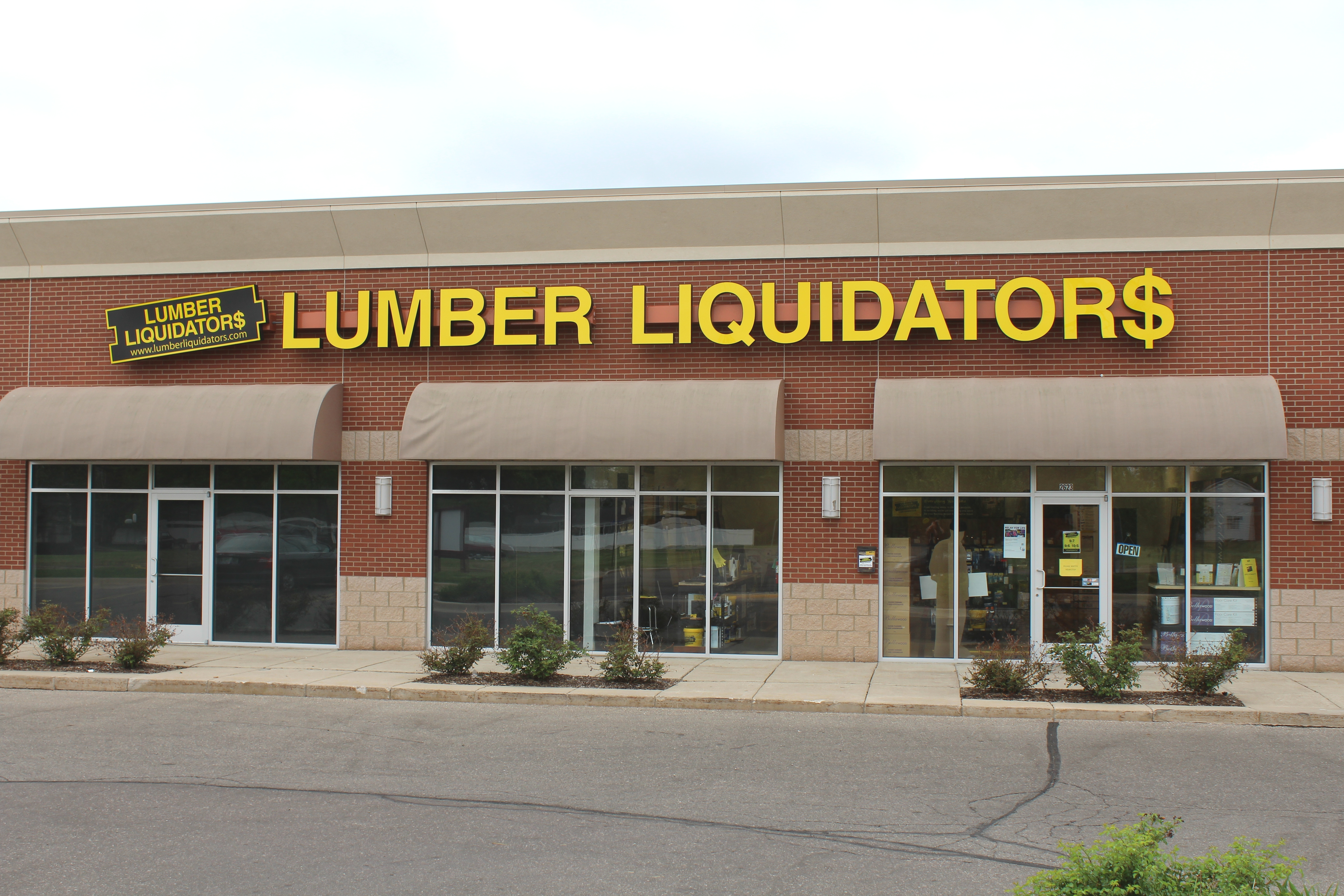 Lumber Liquidators store, 2321 Ellsworth Road, Ypsilanti Township, Michigan.